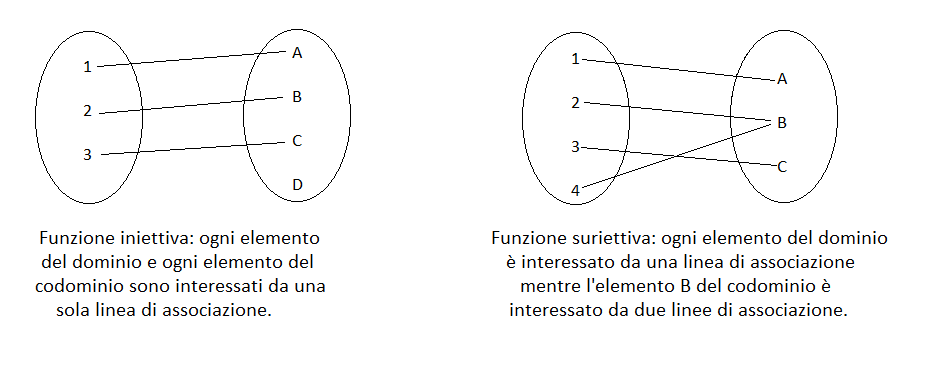 Difference between injective function and surjective function.